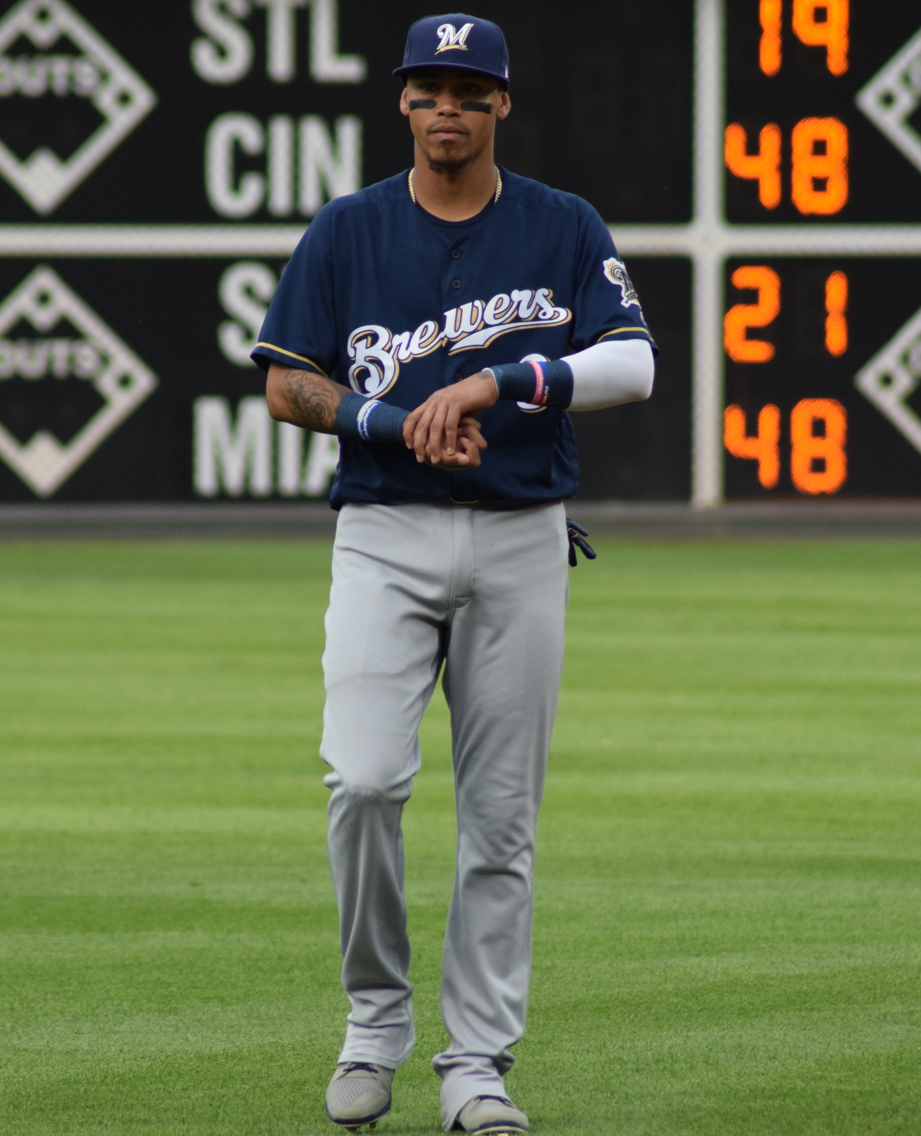 Orlando Arcia with the Milwaukee Brewers at Citizens Bank Park in Philadelphia in 2018